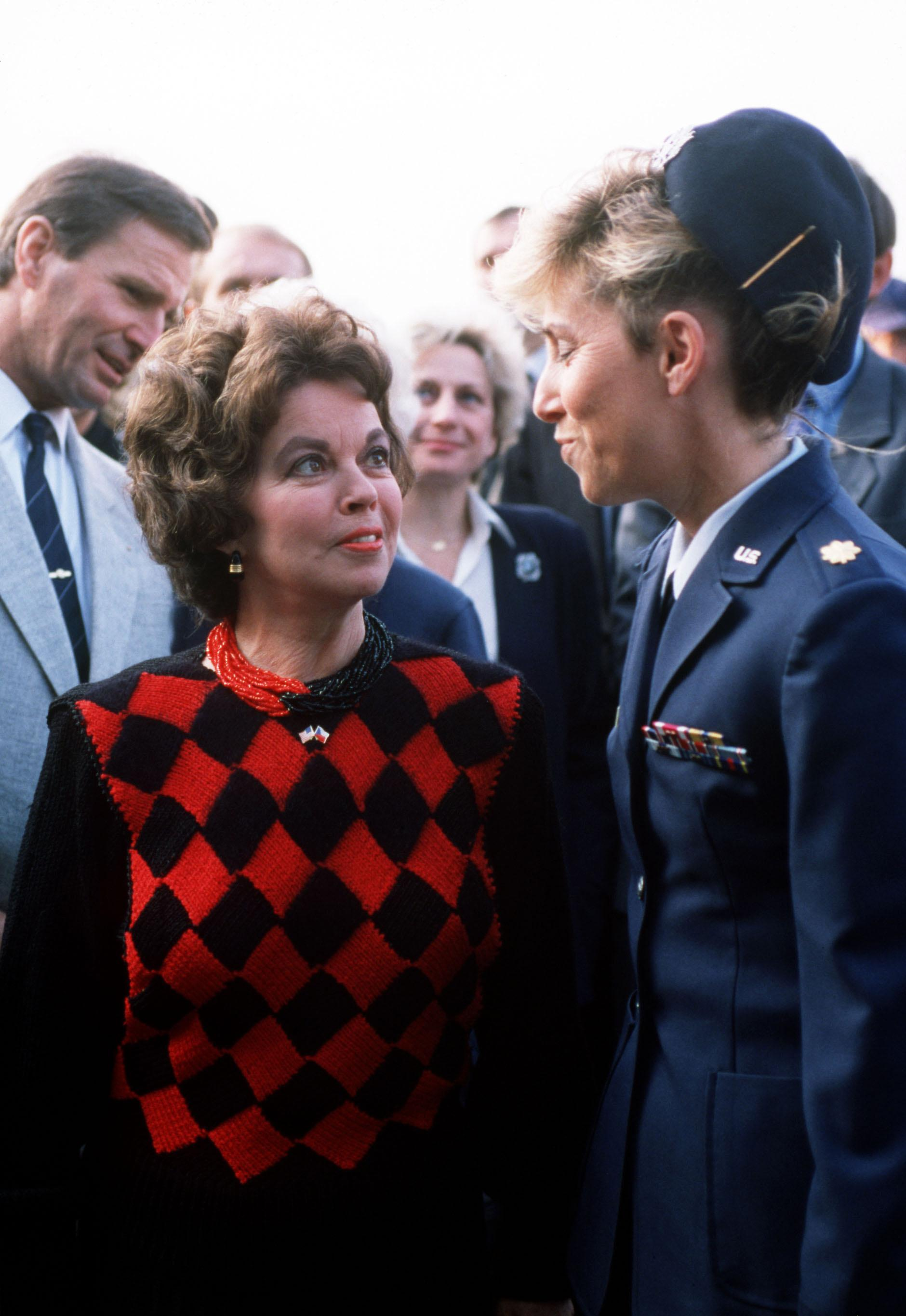 U.S. Ambassador to Czechoslovakia Shirley Temple Black talks with MAJ Carolyn May, the European Command representative for the Defense Department's Office of Humanitarian Affairs, following the arrival of a transport aircraft from Rhein-Main Air Base, Germany. The aircraft carried 130,000 pounds of donated medical supplies that will be turned over to the Czech government for distribution.